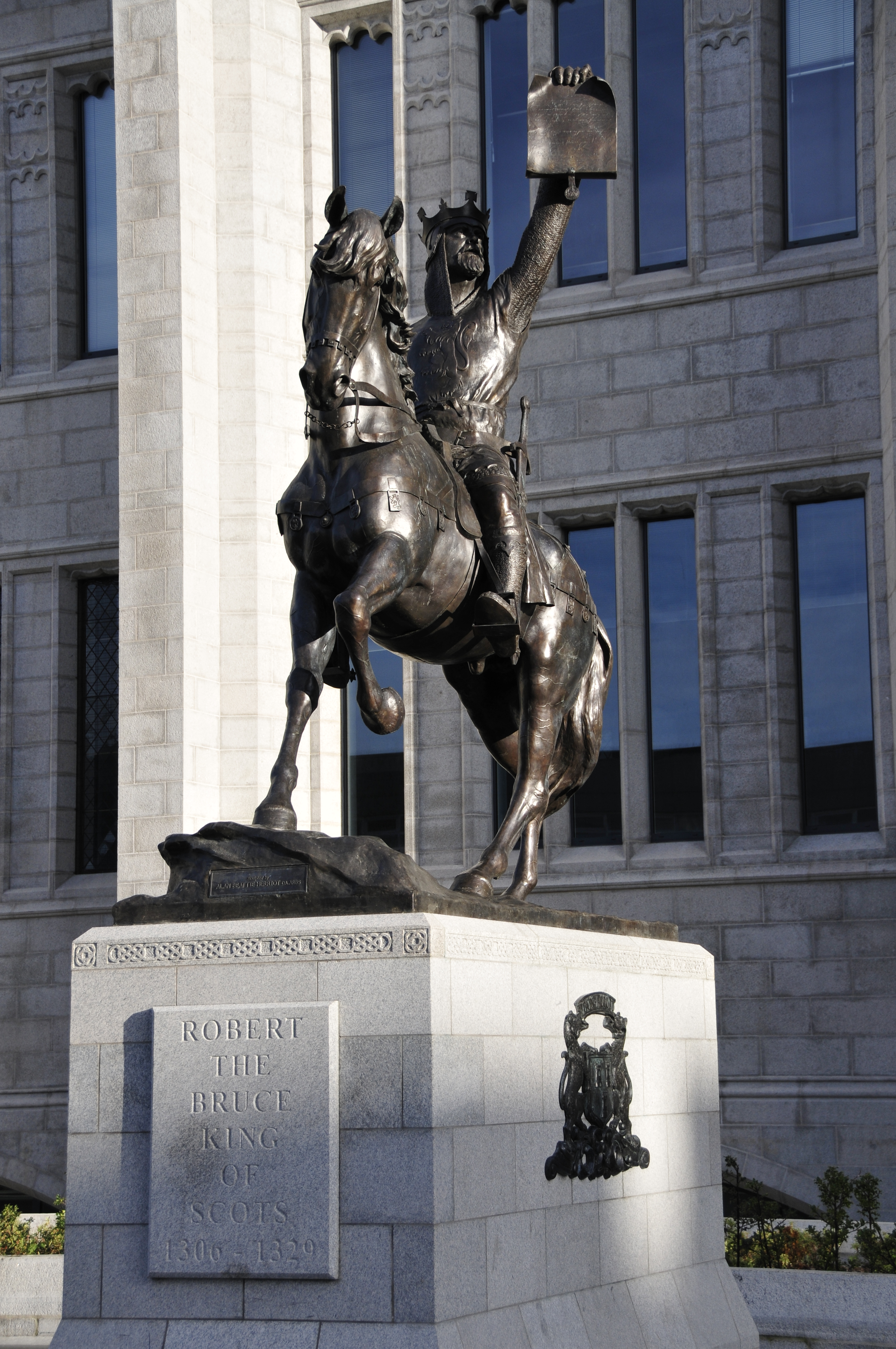 Robert The Bruce